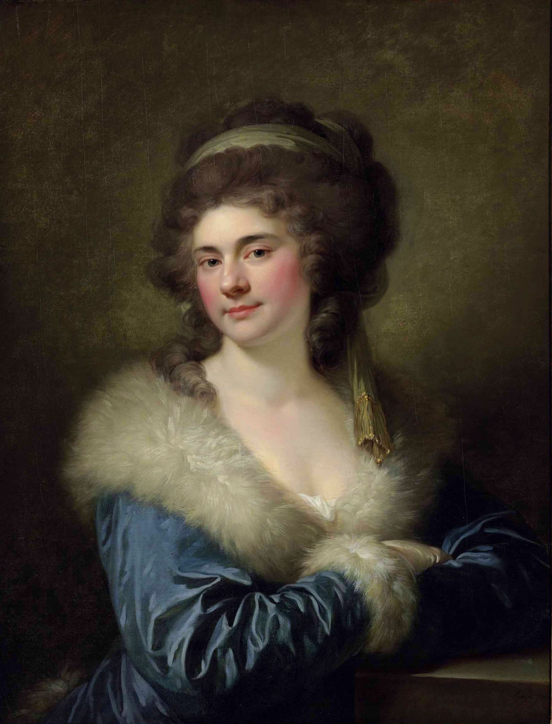 Portrait of Countess Julia Potocka, née Lubomirska (1767-1794)